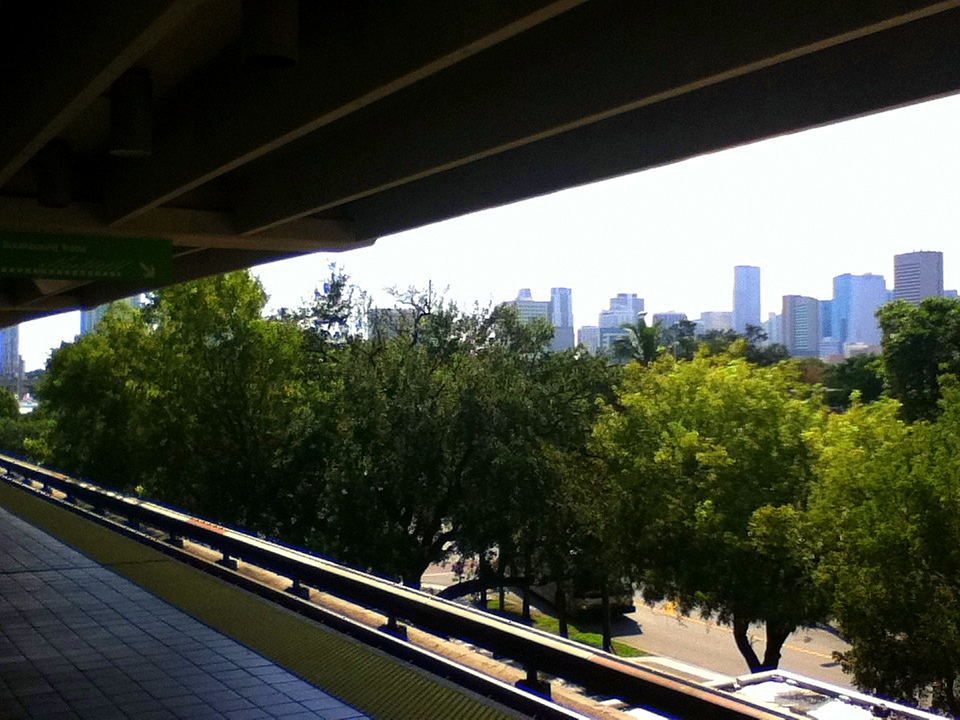 Culmer station, September 2011